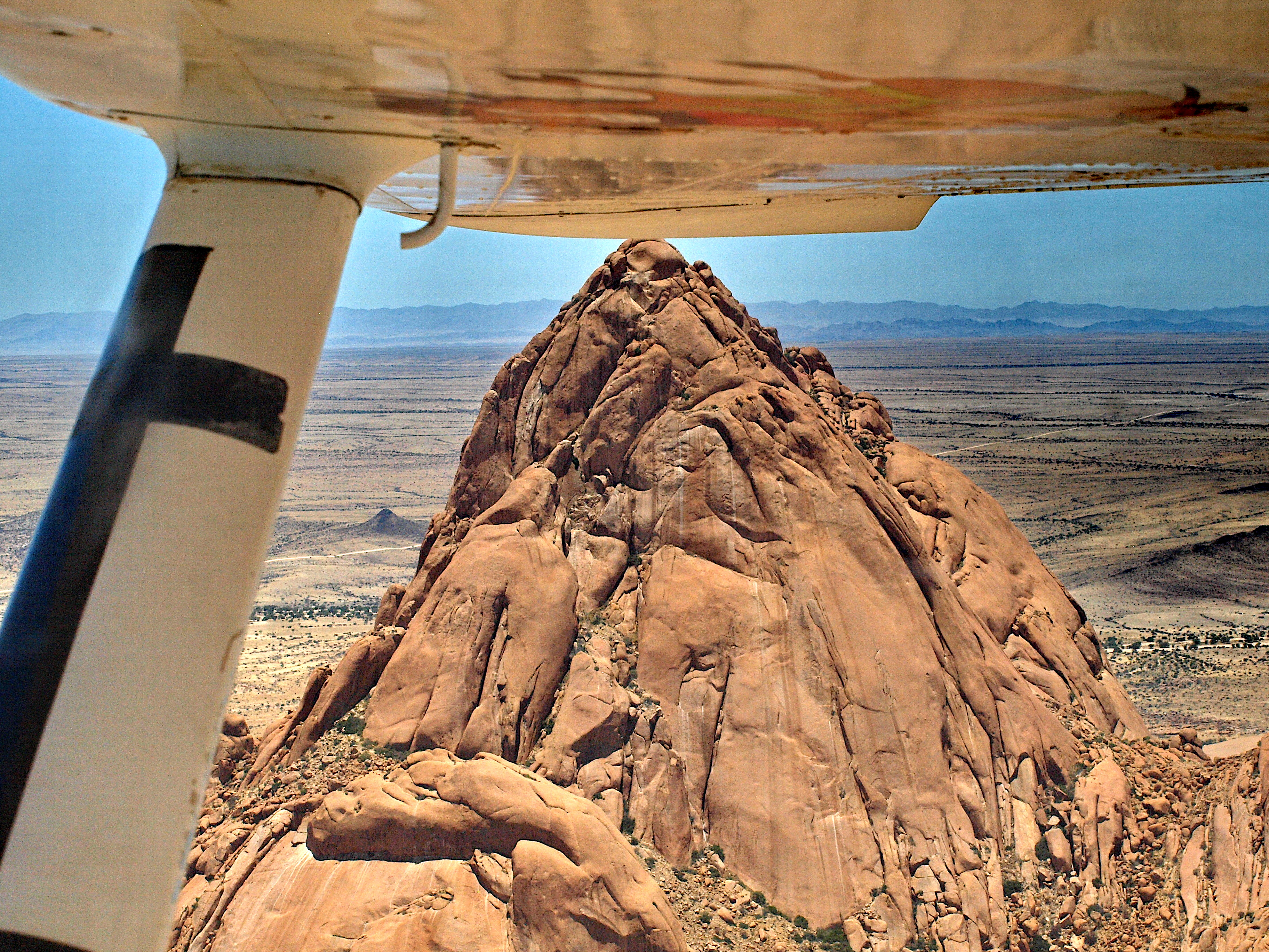 Spitzkoppe aerial view 2009